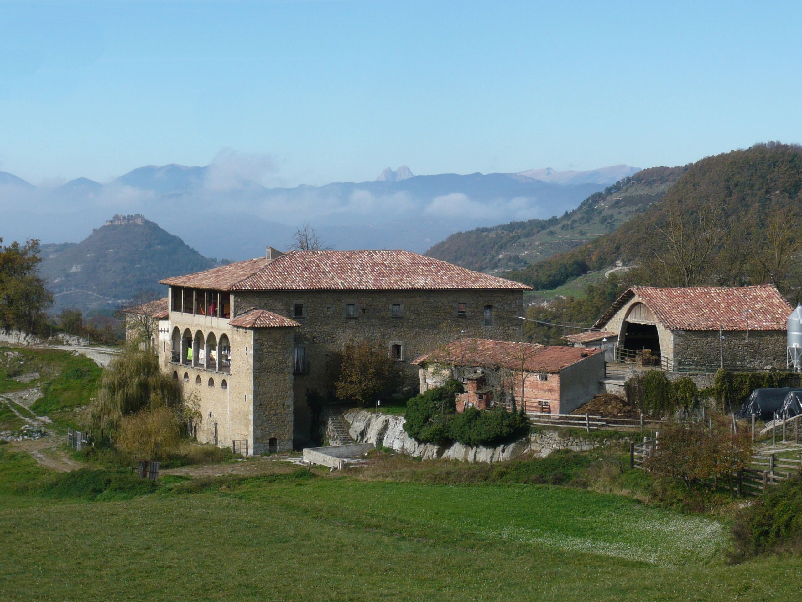 Mas el Coll, in Vidrà, Catalonia.